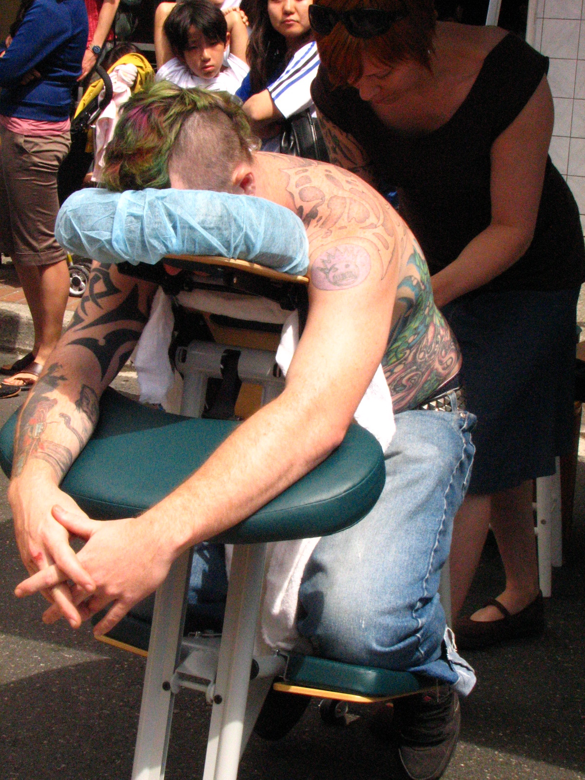 Chair massage at the Car free festival Commercial Drive, Vancouver, British Columbia, Canada.